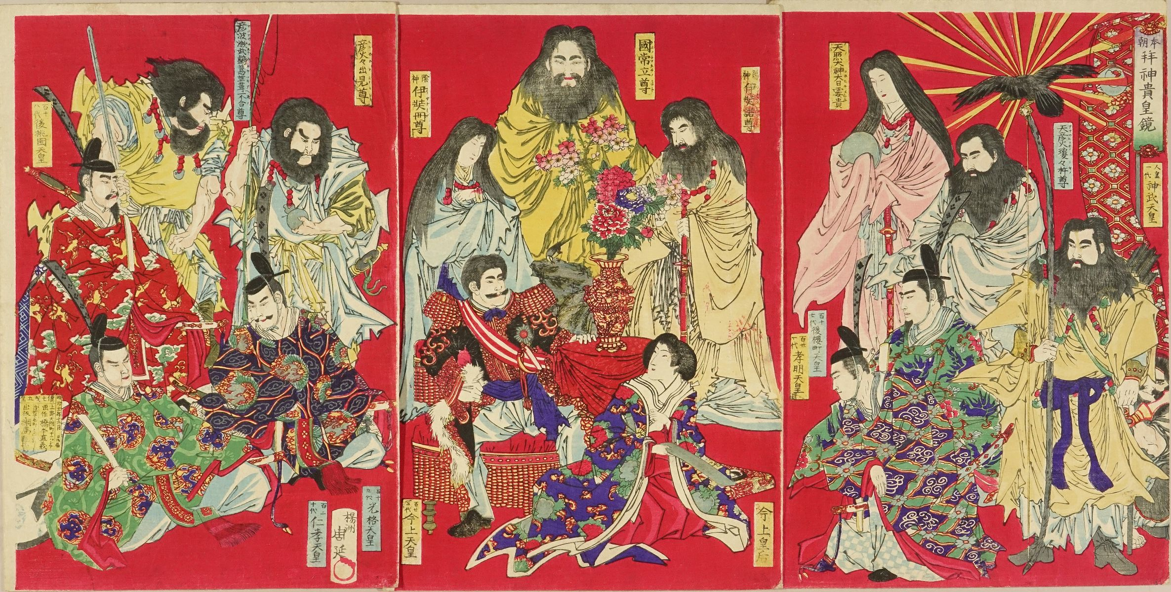 This 1878 engraving by Toyohara Chikanobu (1838 - 1912) visually presents the central tenet of State Shinto (1871-1946). This Shinto variant asserted and promoted belief in the divinity of the Emperor, which arose from a genealogical family tree extending back to the first emperor and to the most important deities of Japanese mythology. -- The figures represented in these three panels are: Center: Front. Emperor Meiji in a Western chair with his wife, Empress Shōken, seated in the foreground. The Imperial couple are accompanied behind and in the flanking panels with an array of Shinto kami and historical figures from Japan's past. Rear. The kami are Izanami (clothed in white), Kunitokotachi (clothed in yellow) and Izanagi (clothed in off-white). Right: Front. Emperor Kōmei (seated in foreground), Empress Go-Sakuramachi (here presented as a man with a false goatee), and Emperor Jinmu (carrying a rough bow and perched golden kite.) Rear. The kami are Amaterasu (bearing the three Sacred Treasures) and Ninigi-no-Mikoto. Left: Front: Emperor Go-Momozono (clothed in red), Emperor Kōkaku (clothed in black) and Emperor Ninkō (clothed in green). Rear. The kami are Hiko-hohodemi (clothed in white) and Ugayafukiaezu (clothed in yellow).